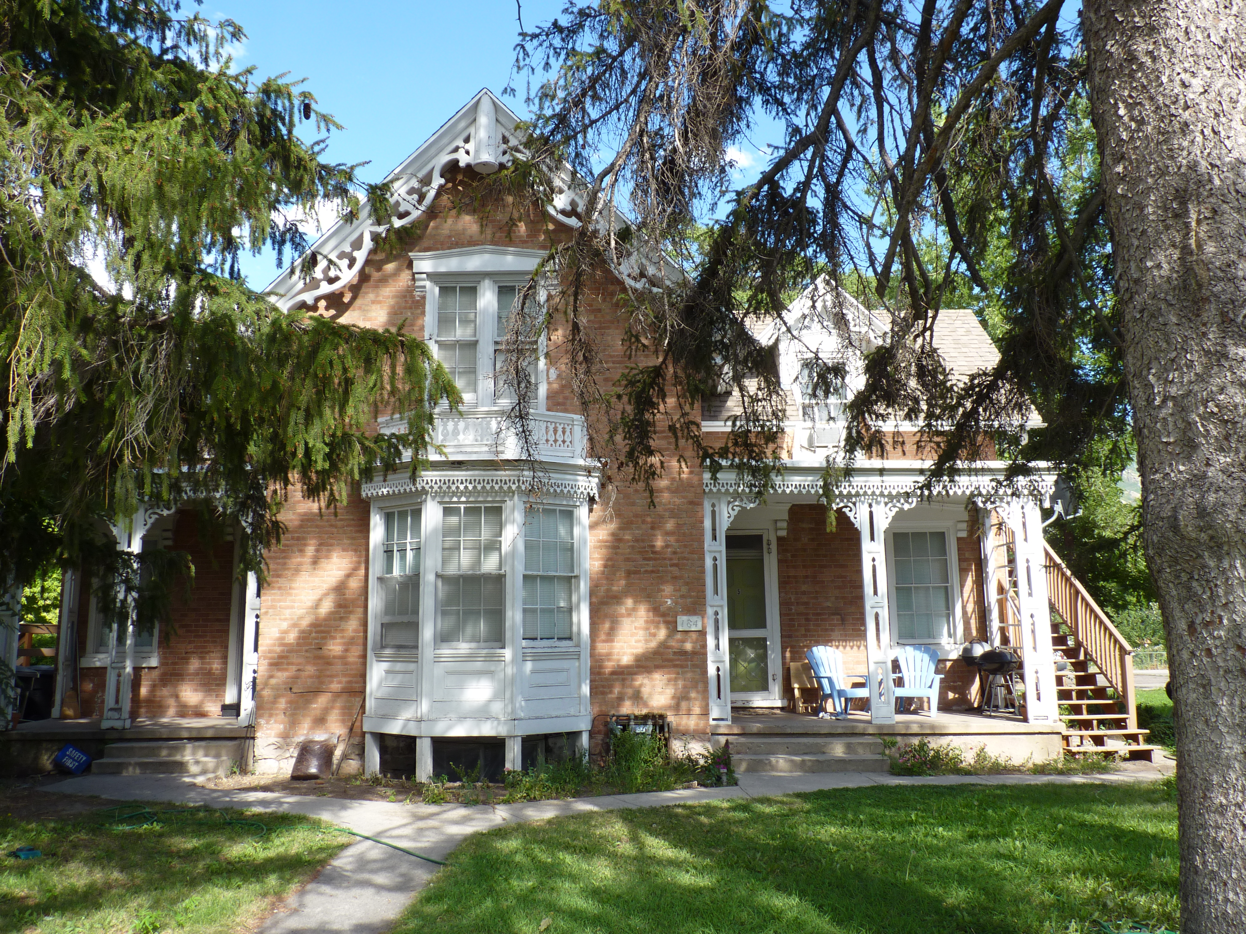 The Harvey H. Cluff House is located at 100 East and 174 North. It is part of the Provo, Utah historic landmarks registry, as well as the NRHP.